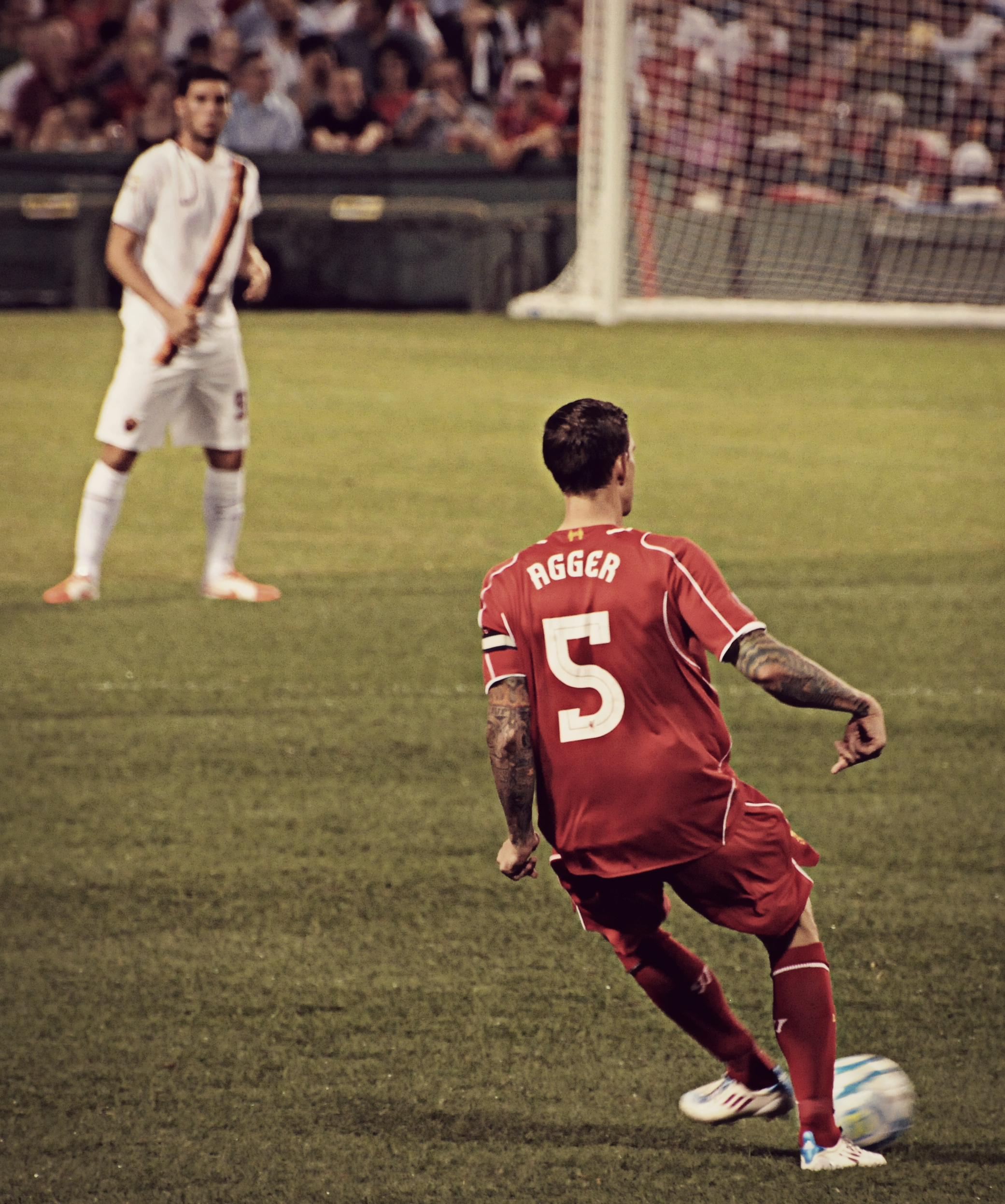 Liverpool FC v/s Roma @ Fenway Park (Boston, Massachusetts)